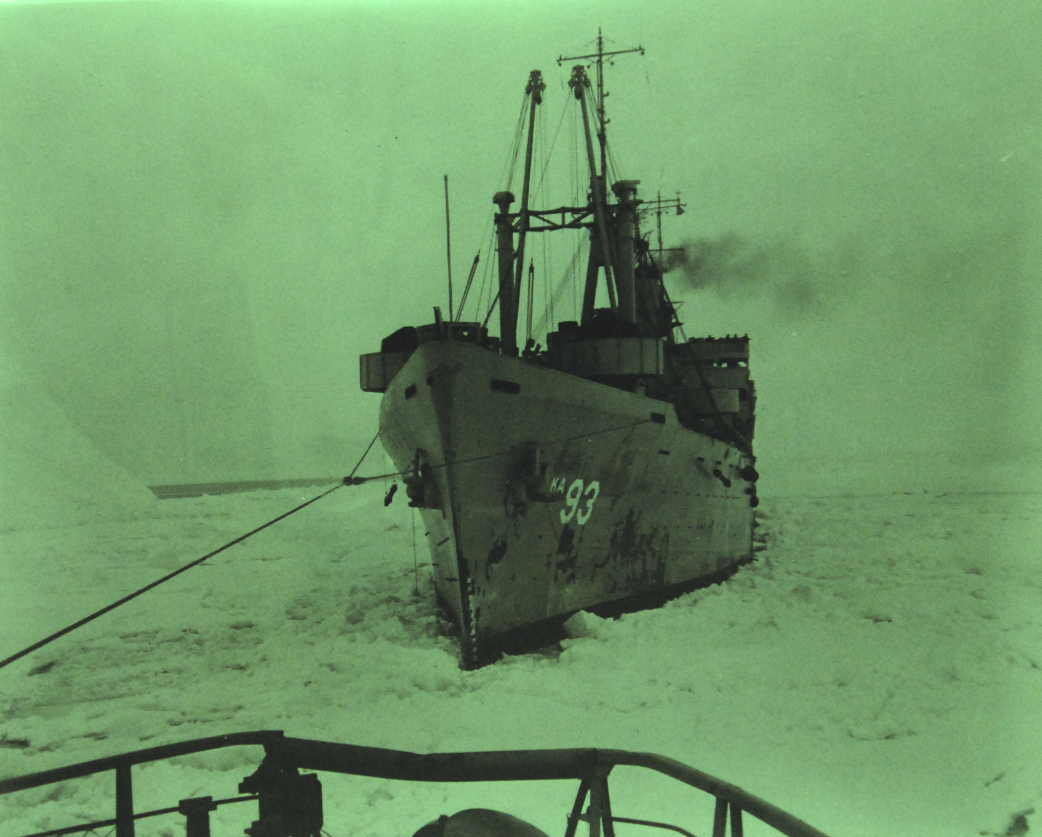 Lot 2282-4: South Polar Towing Job. While on a mission, towing the submarine USS Sennet (SS 408) toward Scott Island where the submarine could find open water, the Coast Guard’s icebreaker Northwind (WAGB 282) received a radio message that USS Yancey (AKA 93) and USS Mount Olympus (AGC 8) were in danger from floating ice. Northwind dropped her tow temporarily, rushed back to the assistance of the beleaguered vessels, and is shown here towing USS Yancey towards an area of less danger. The effect of crushing ice on a thin-hulled vessel could be disastrous. The Northwind arrived in time to meet and defeat the ice threat. Operation Deep Freeze was from December 1956 to April 1957. Photographed through Mylar sleeve. Official U.S. Coast Guard Photograph. (2015/10/09).